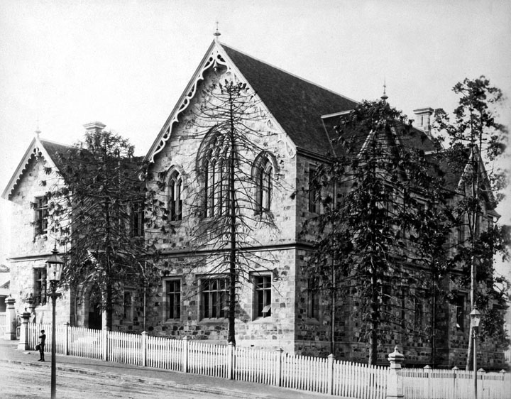 Central State School for Boys, Brisbane. (Alternative names include Brisbane Central State School, Leichhardt Street (practising) School and Leichhardt Street State School for Boys, Girls, Infants.)